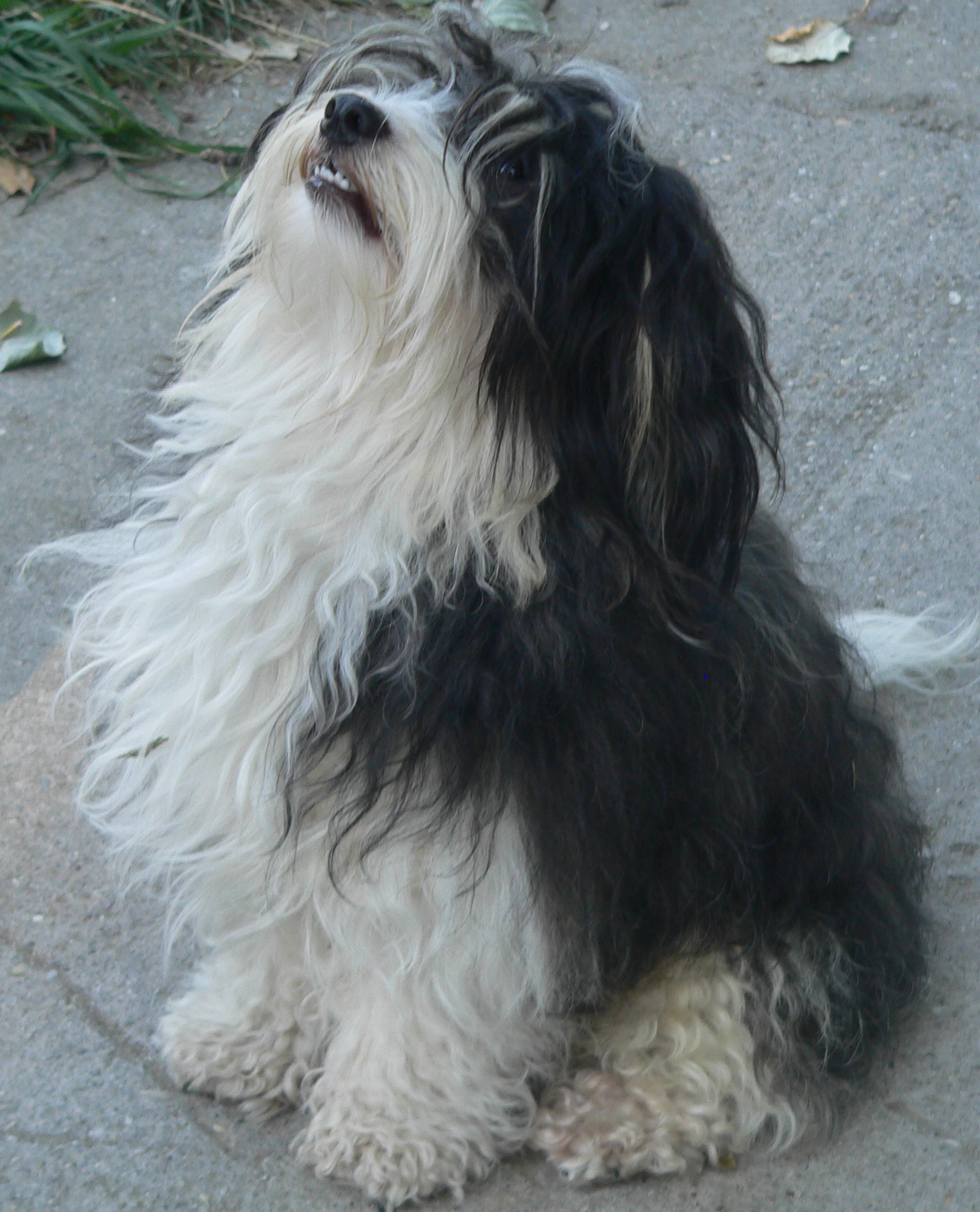 Male bichon havanese, named Yoyo